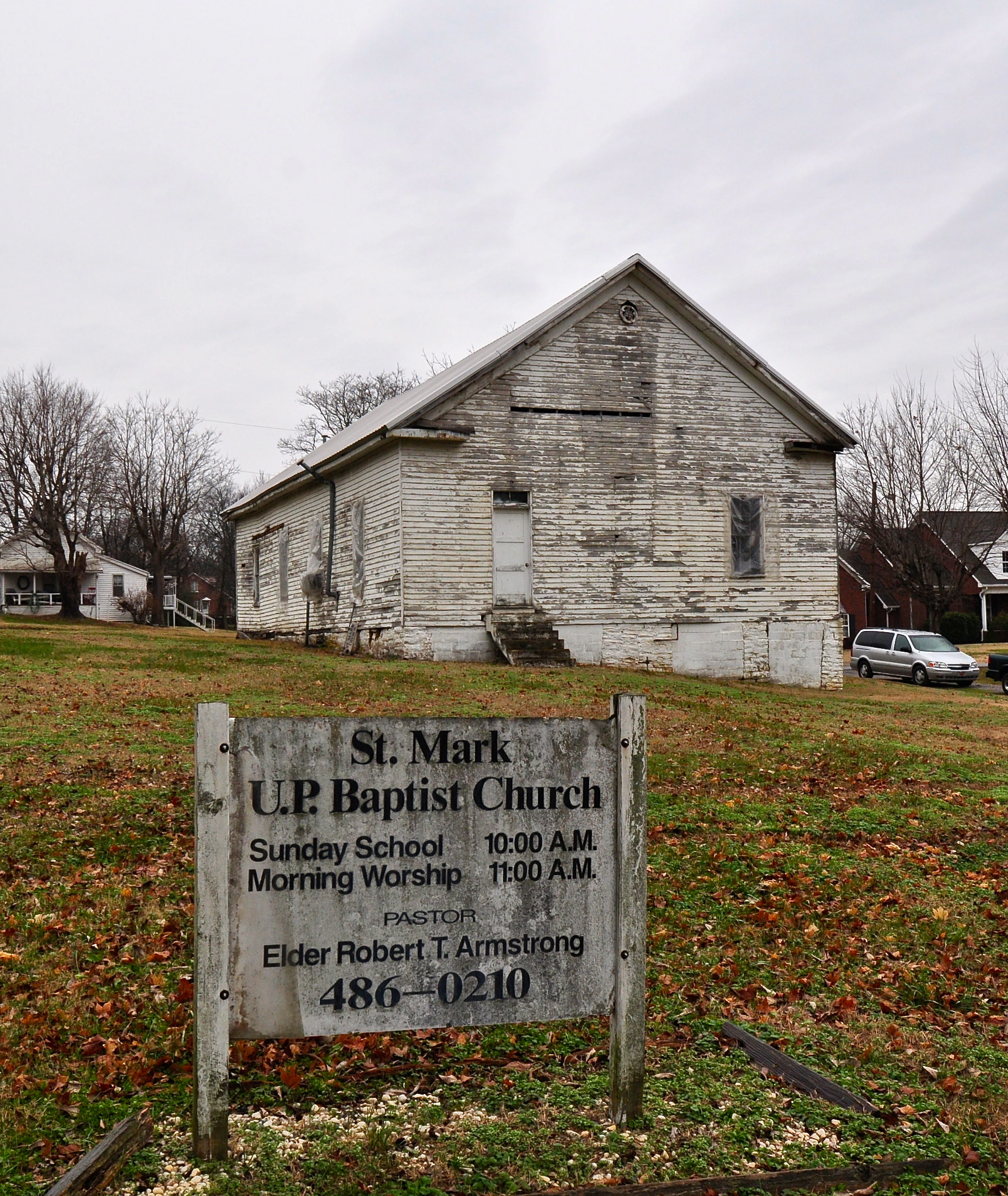 Located at Spring Hill, Tennessee.